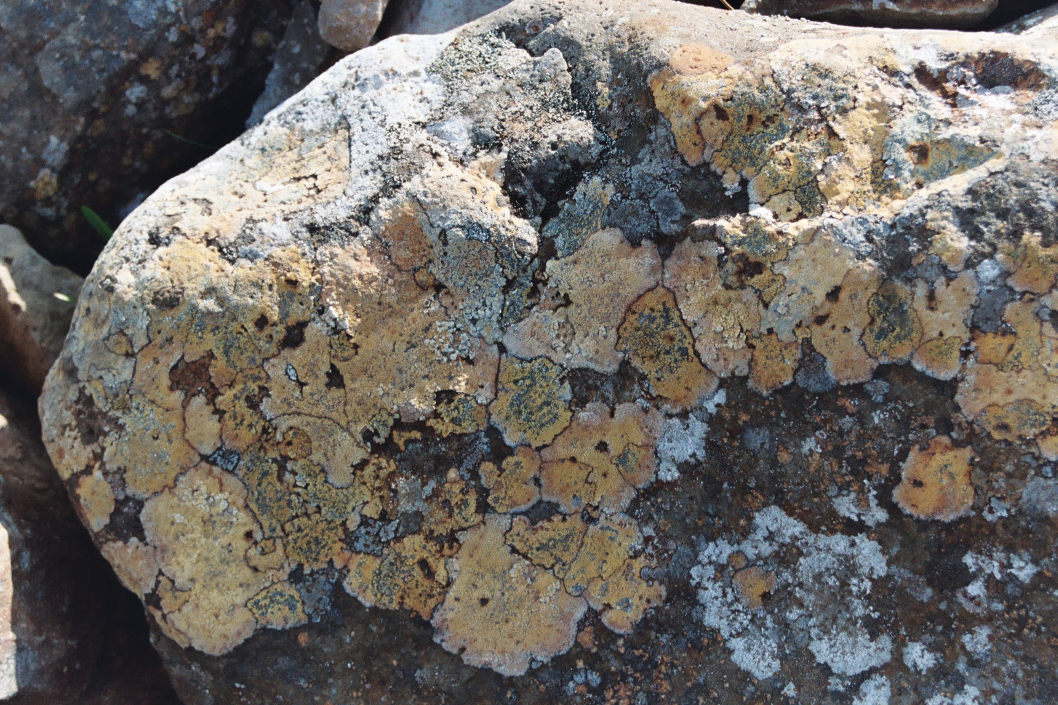 Some lichens on a rock (The photograph has been taken on the Dynjandi site, in Iceland. Size : 1536 x 1024, numerized from a silver film.)